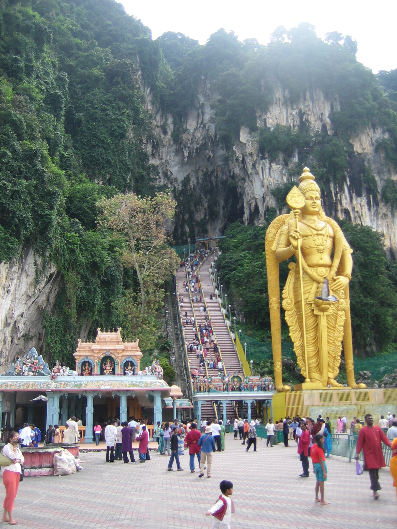 Batu grottoes near Kuala Lumpur, seen from front entrance